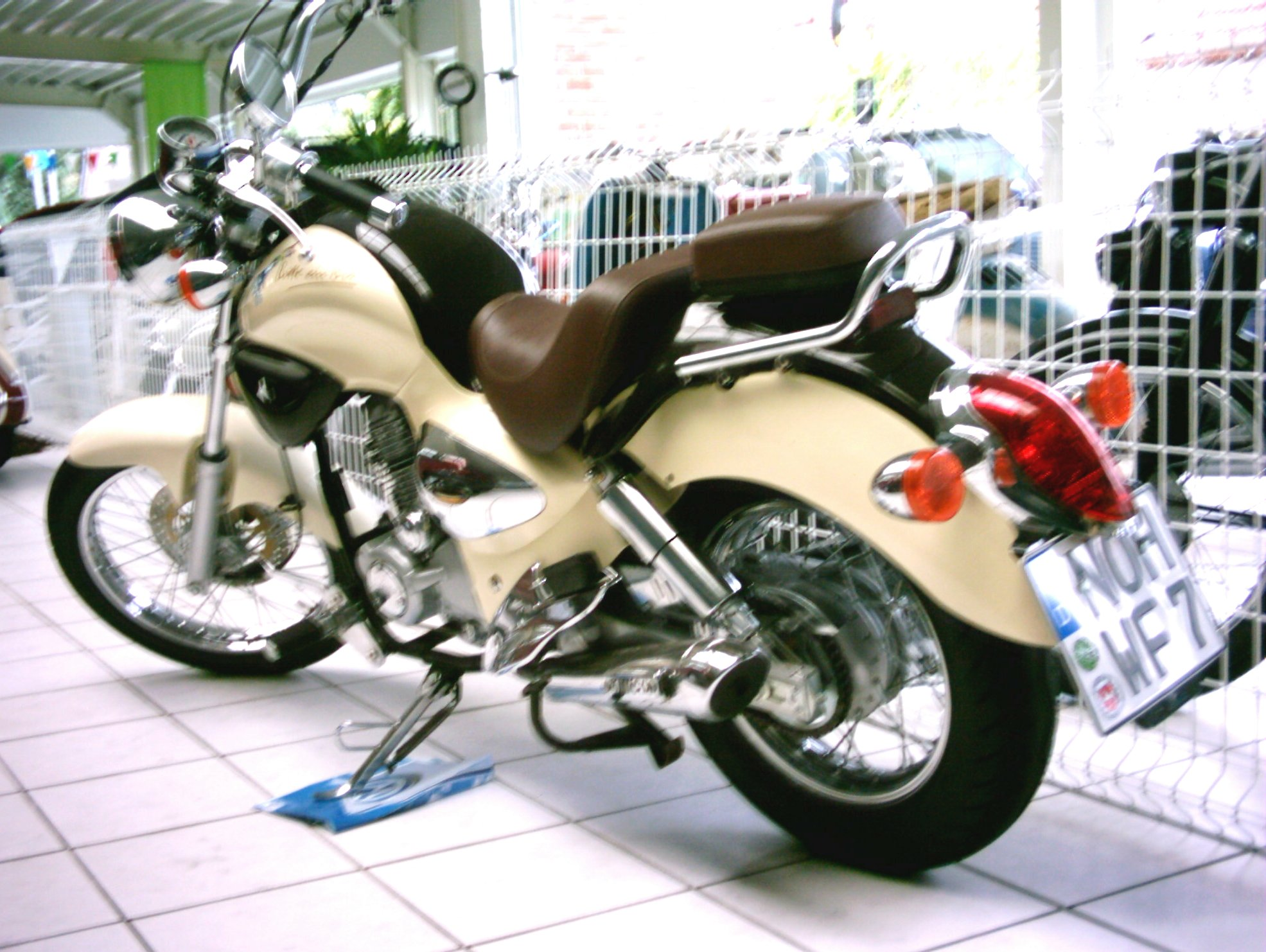 Kymco Hipster 125.